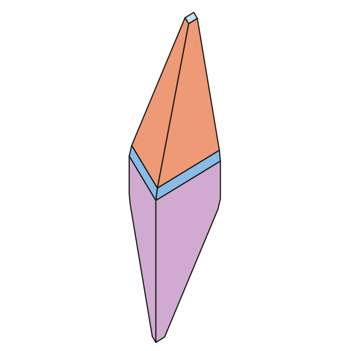 Steep pyramidal natrochalcite crystal. Reference: Charles Palache & Charles H. Warren (1908), Kroehnkite, natrochalcite (a new mineral), and other sulphates from Chile, American Journal of Science vol. 26, p. 345.